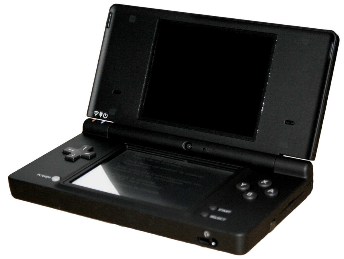 Taken by Havok on April 1st 2009.